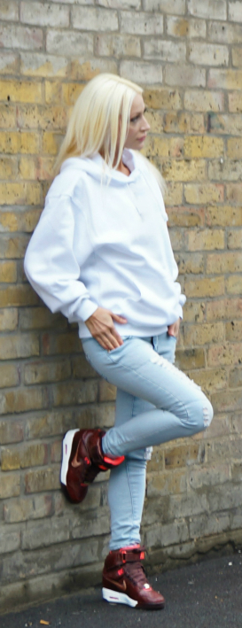 Janis Maria Wilson and Jeremy Deputat